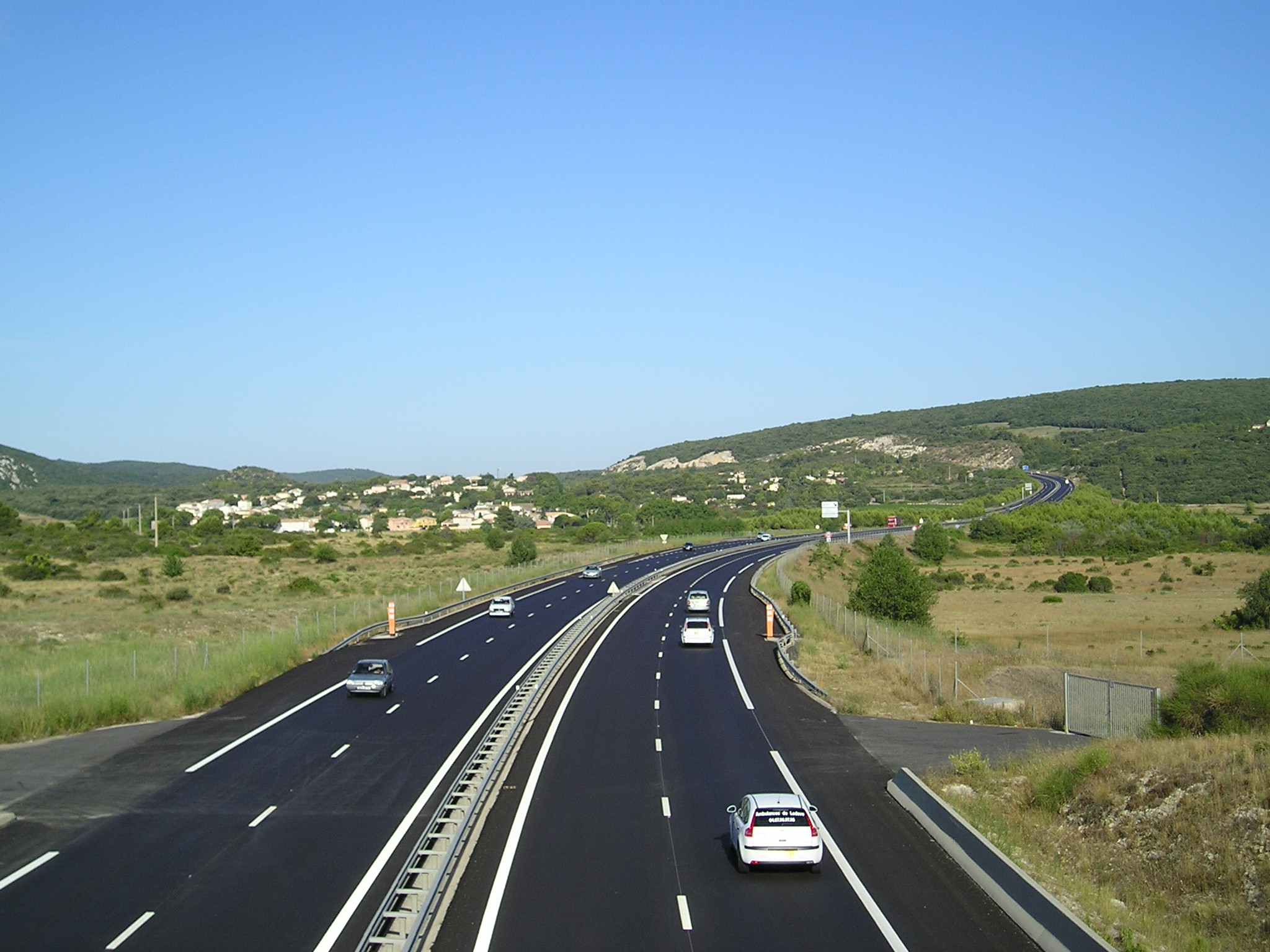 In Hérault, France, Saint-Paul-et-Valmalle (left, South) and the A750 highway (center then right, North), viewed from East and the bridge of D27 road. Hidden in the light-green trees is exit 61 marked by a white sign.